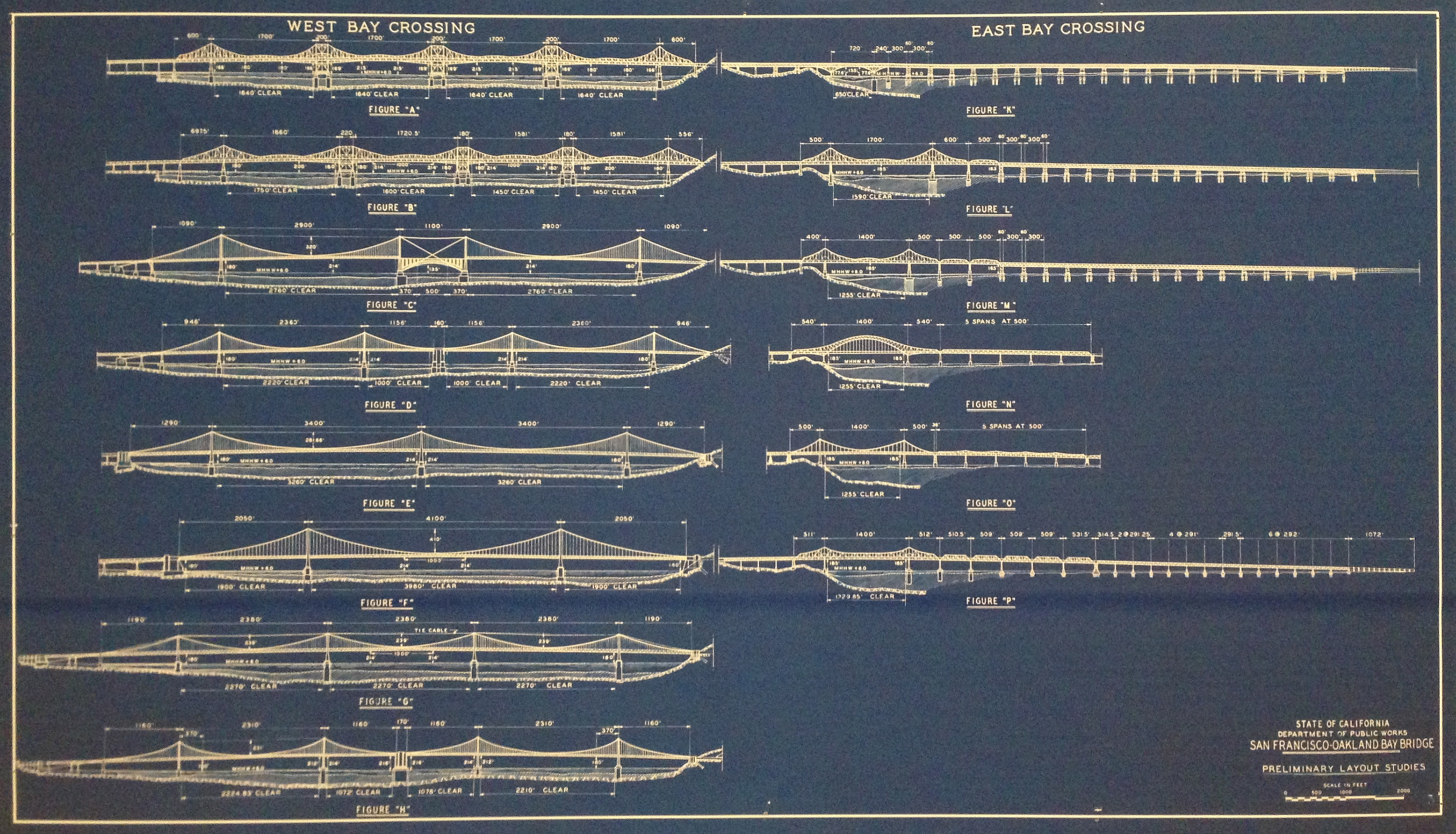 Preliminary layout studies for the San Francisco–Oakland Bay Bridge